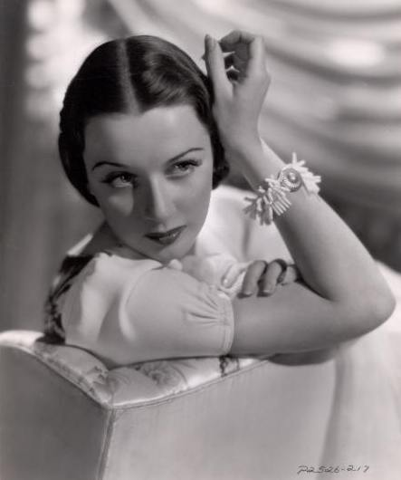 Portrait of Patricia Morison, actress This picture was created as a publicity photo in 1939. As it was originally a "give away" the copyright to it are now most likely in the public domain. The source was from a non-commercial DVD-ROM and intended for sharing.